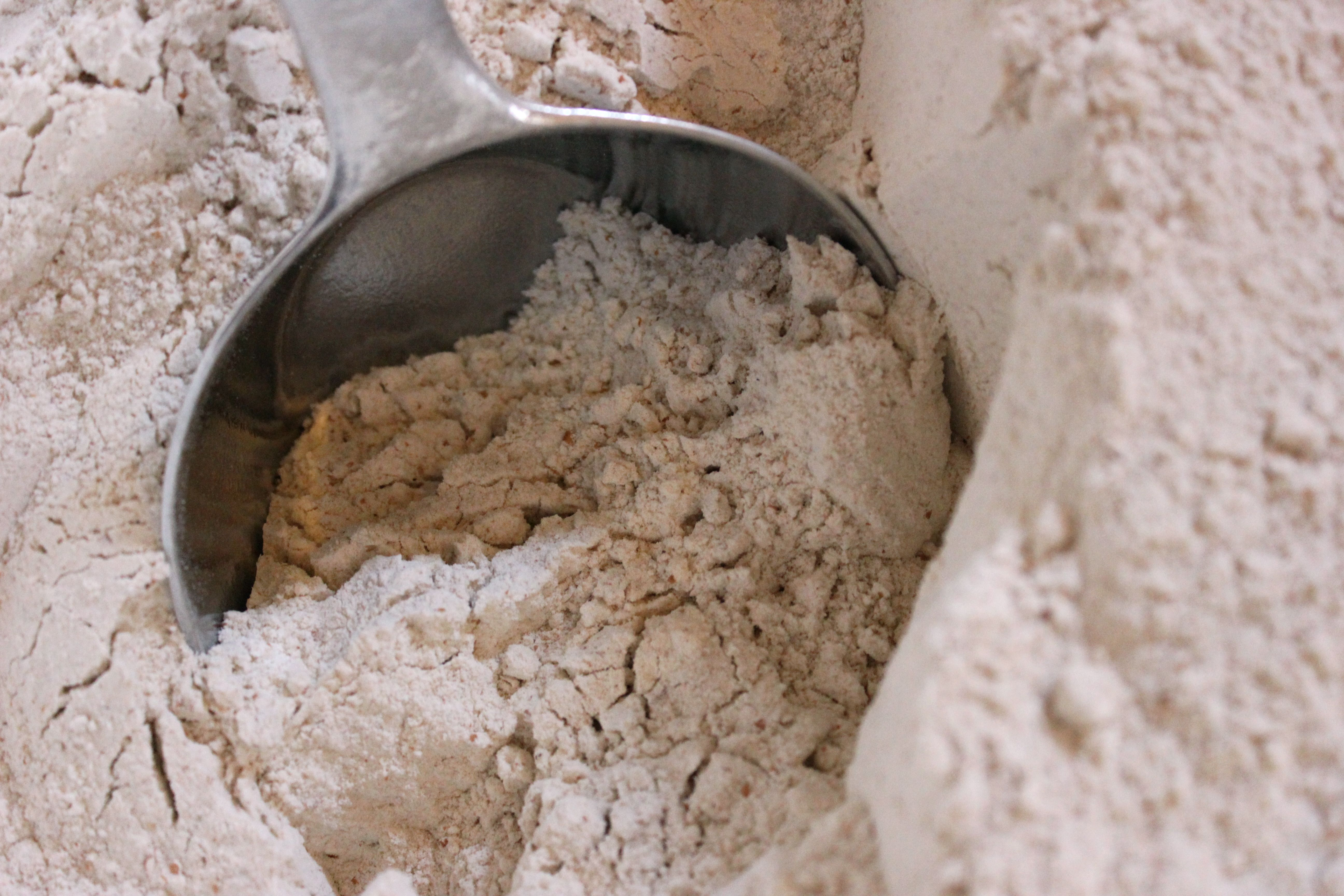 Whole wheat flour being scooped. Because the whole grain is used, darker colored flakes of bran are visible in the flour.